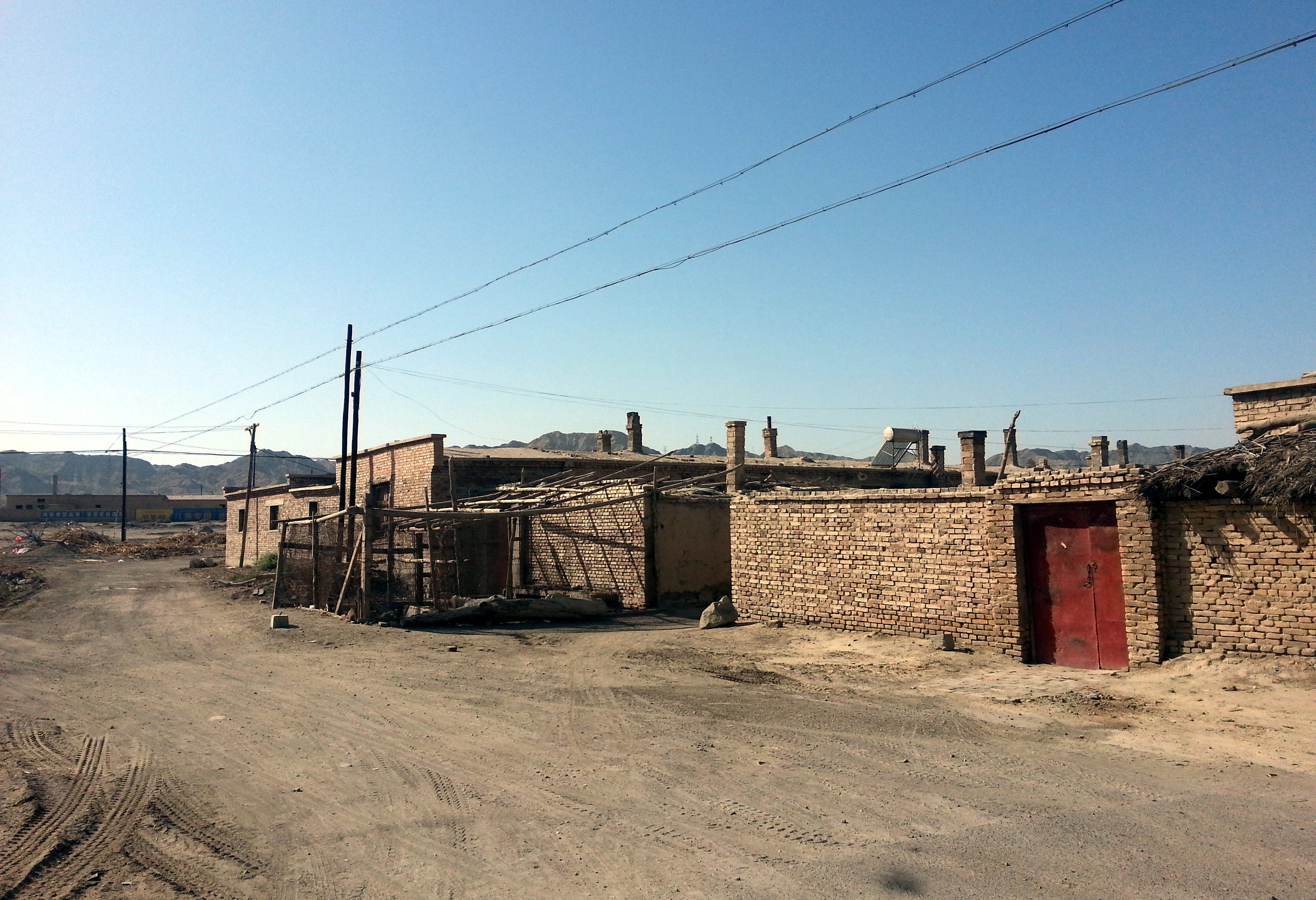 Photograph of a street in the town Tashidian in the Bayingolin Mongol Autonomous Prefecture, in the Xinjiang Uyghur Autonomous Region, China.